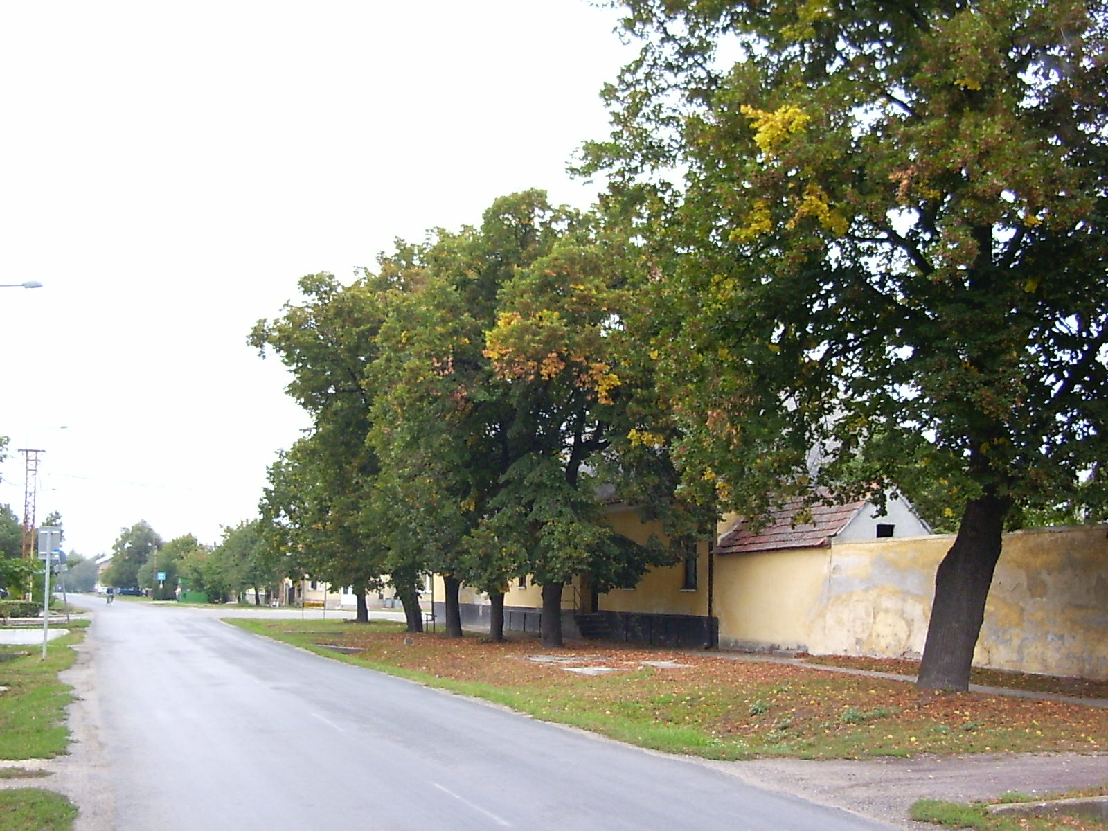 Babót, autumn